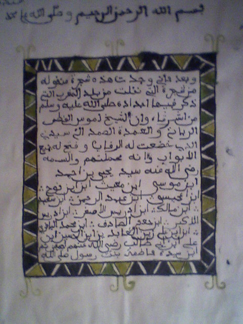 Manuscrit de Sifi Yahia